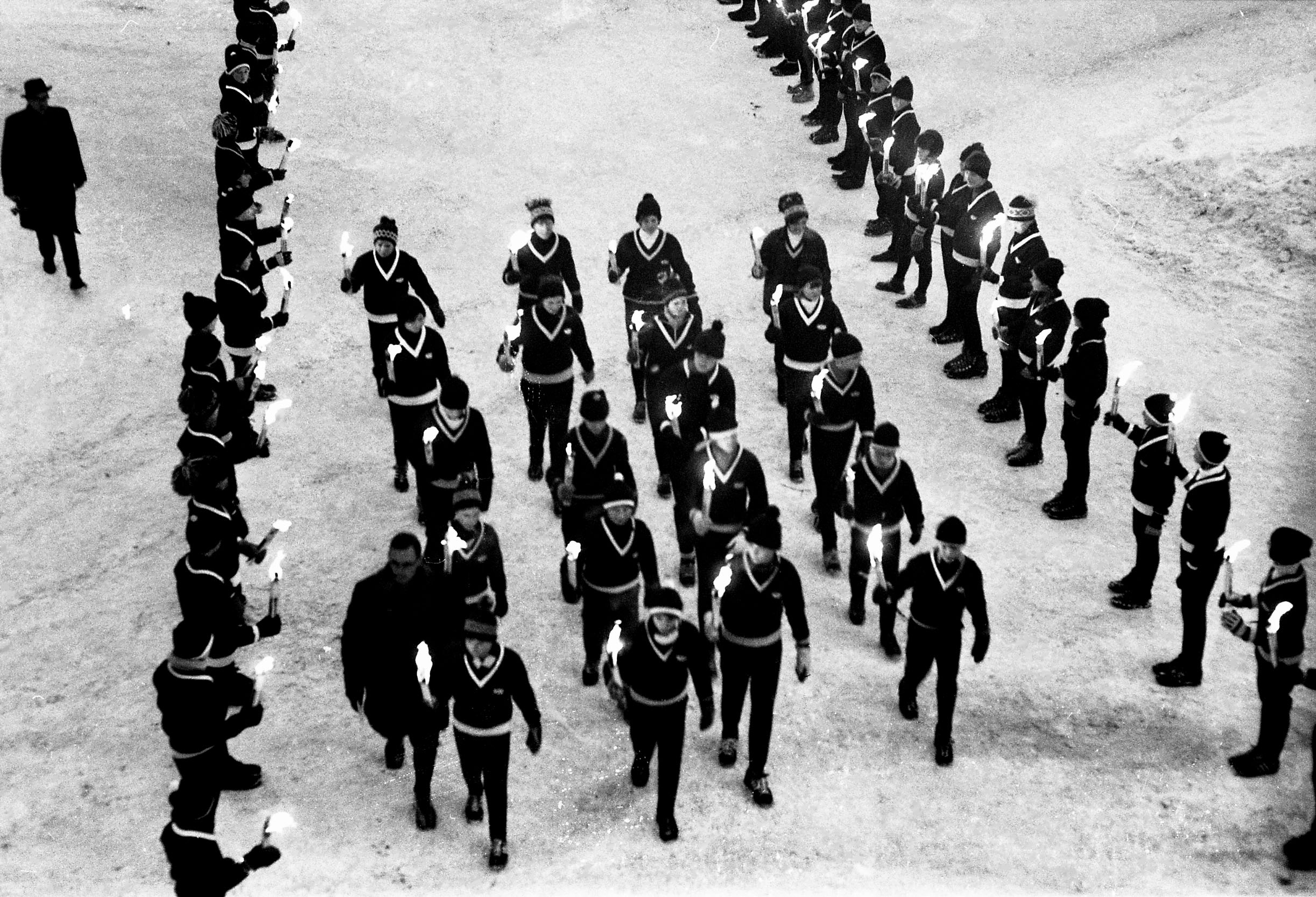 Photo from National Archives of Norway's Flickr-Album "Åpningsseremoni (Opening ceremony)" (all images marked with "No known copyright restrictions")